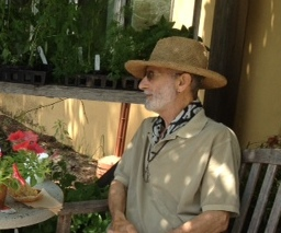 Lorenzo Tartamella interviewing Frank Serpico for the New York Wisdom project.